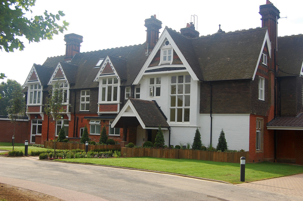 UKBA's Cedar House